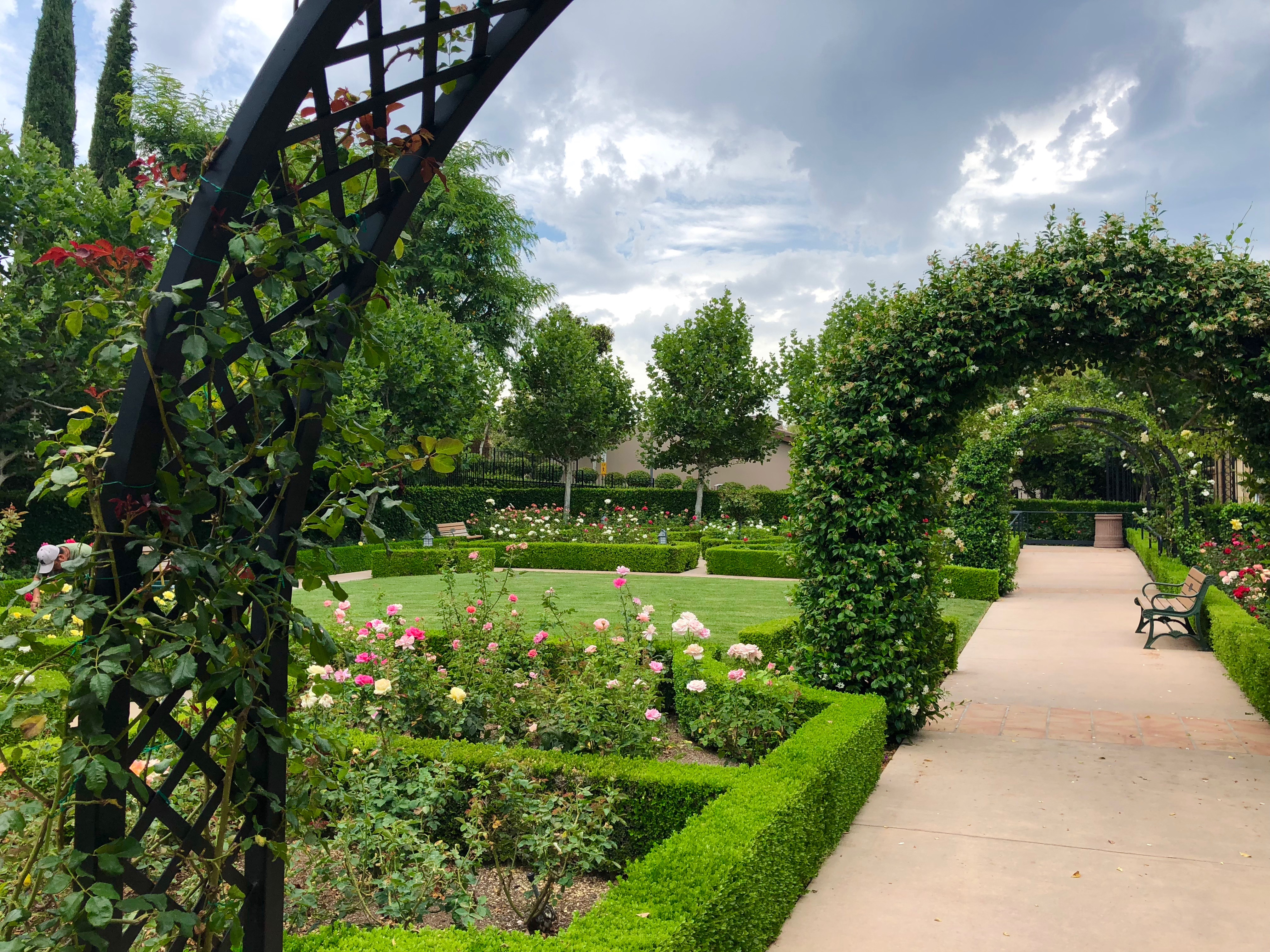 English Perennial and Rose Garden at Gardens of the World in Thousand Oaks, CA.